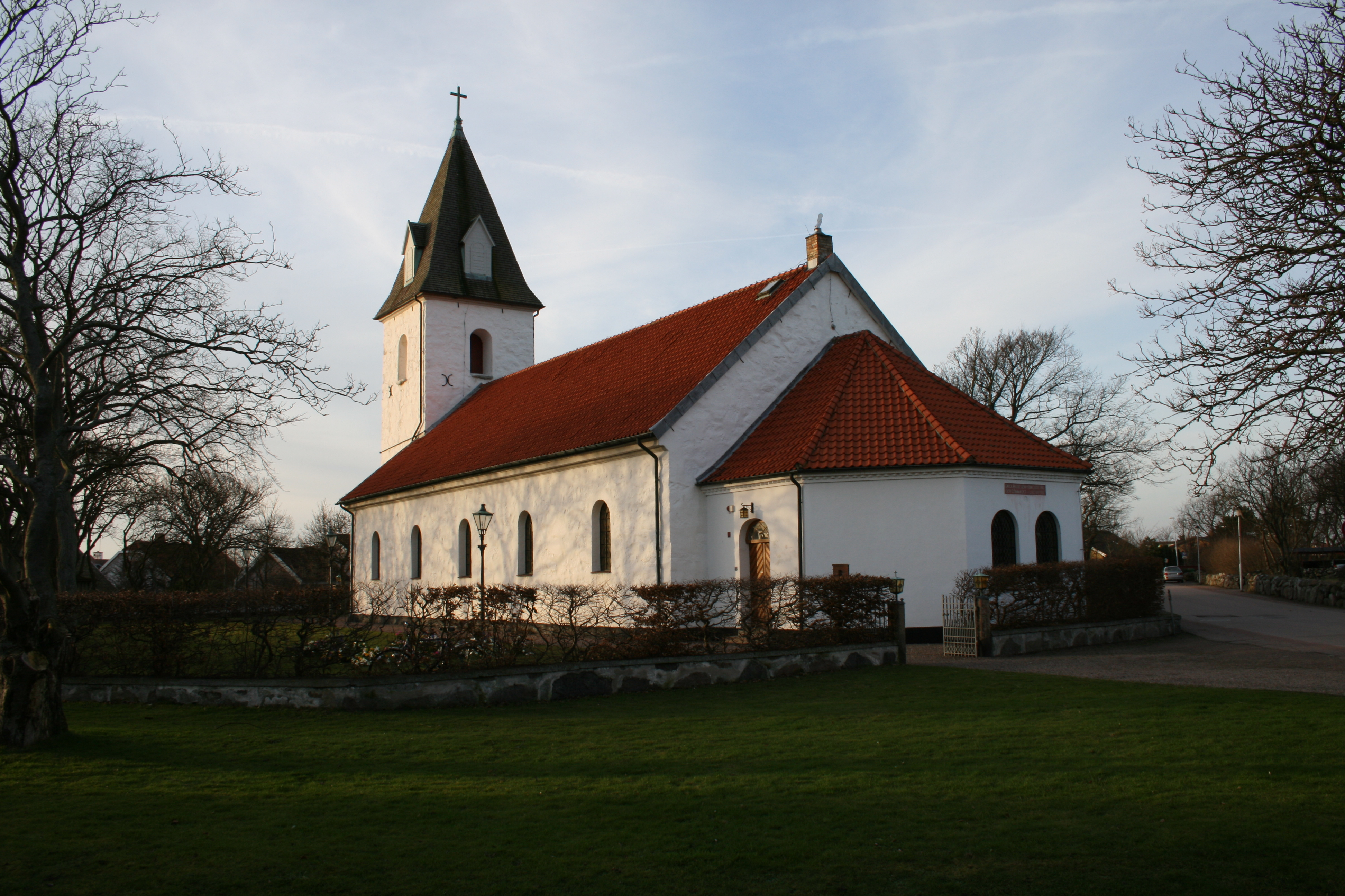 The church of Viken, in the municipality of Höganäs, Sweden.